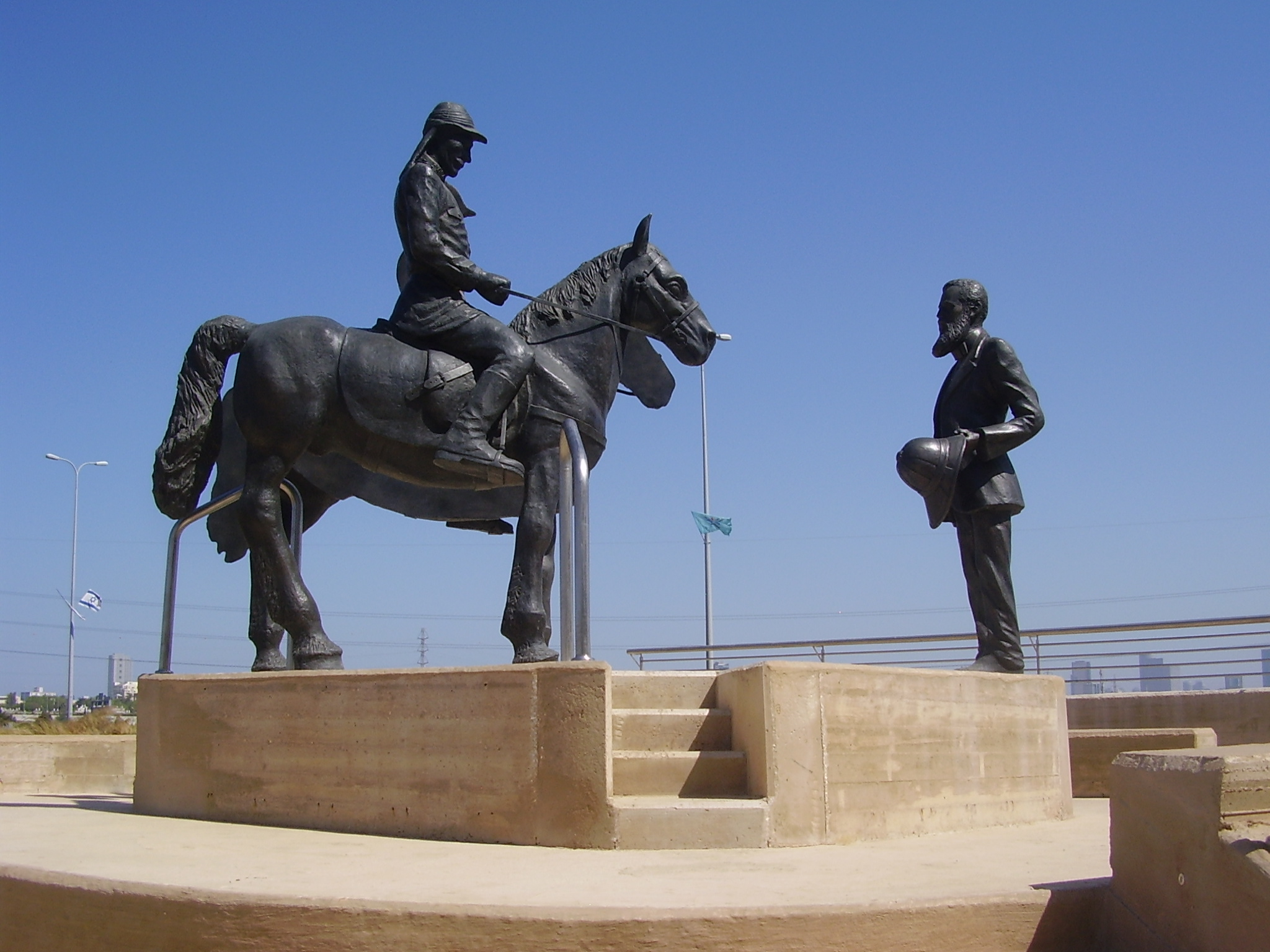 Sculpture by motti mizrachi of herzl meeting kaiser wilhelm in mikveh israel